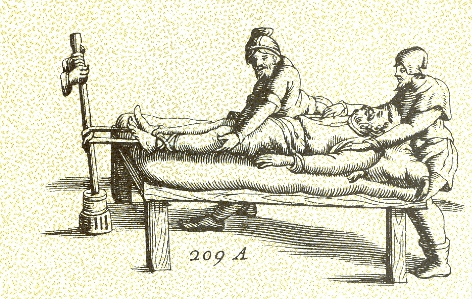 Andrea Pralard lumbar disk herniation medieval treatment